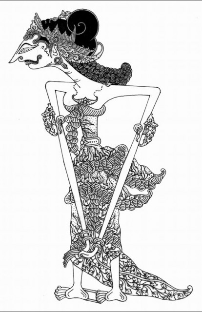 gambar dewi amba